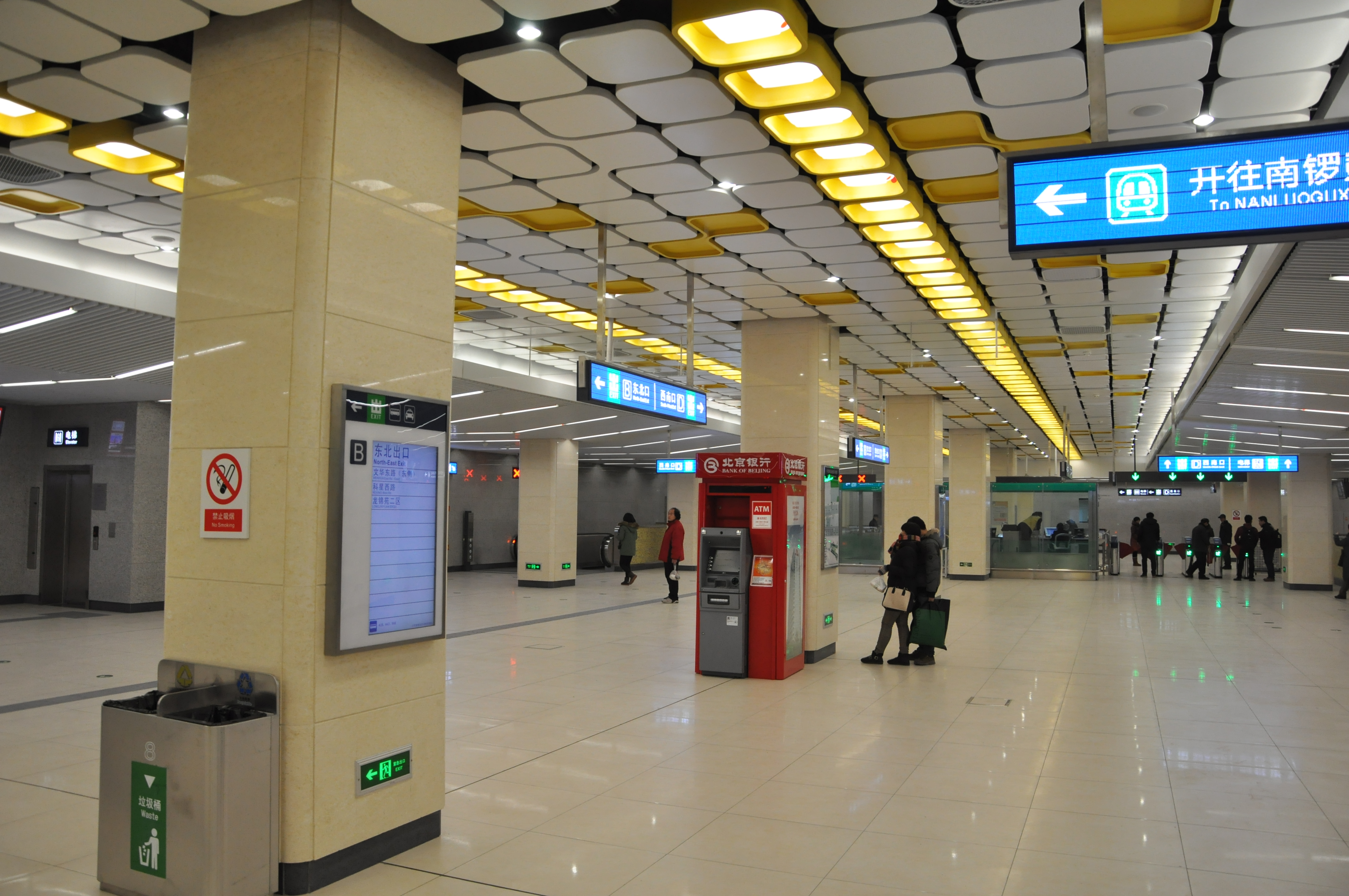 Concourse of Pingxifu station, Line 8, Beijing Subway. The ceiling is decorated with two yellow line of lights.